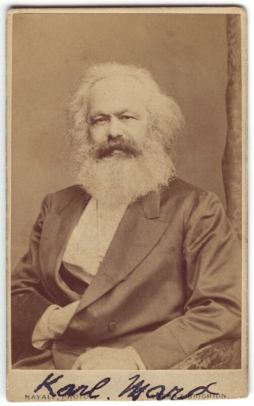 Karl Marx by John Mayall albumen carte-de-visite, circa 1870 3 5/8 in. x 2 3/8 in. (91 mm x 59 mm) Purchased, 2004 Photographs Collection